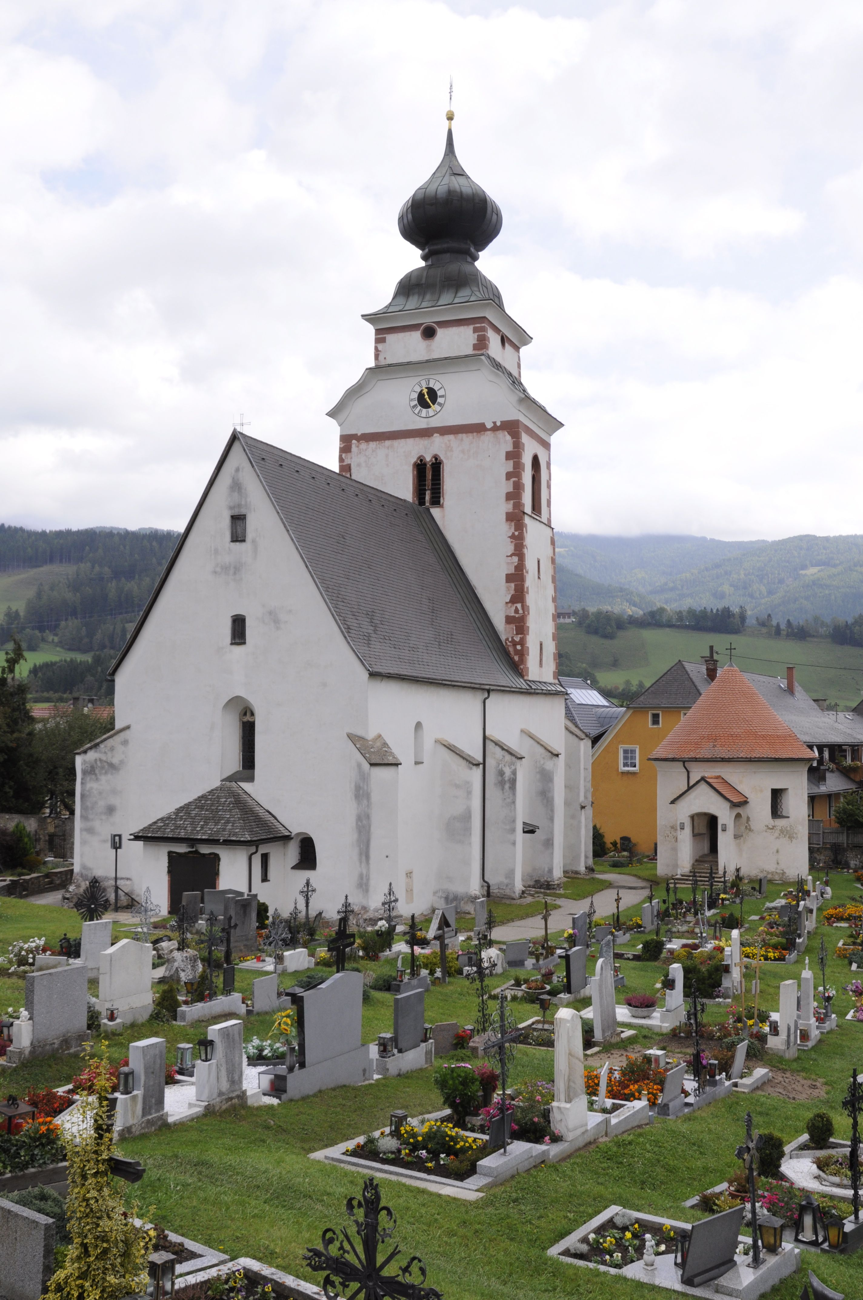 Parish church Saint James the Greater in Reichenfels, municipality Reichenfels, district Wolfsberg, Carinthia / Austria / EU